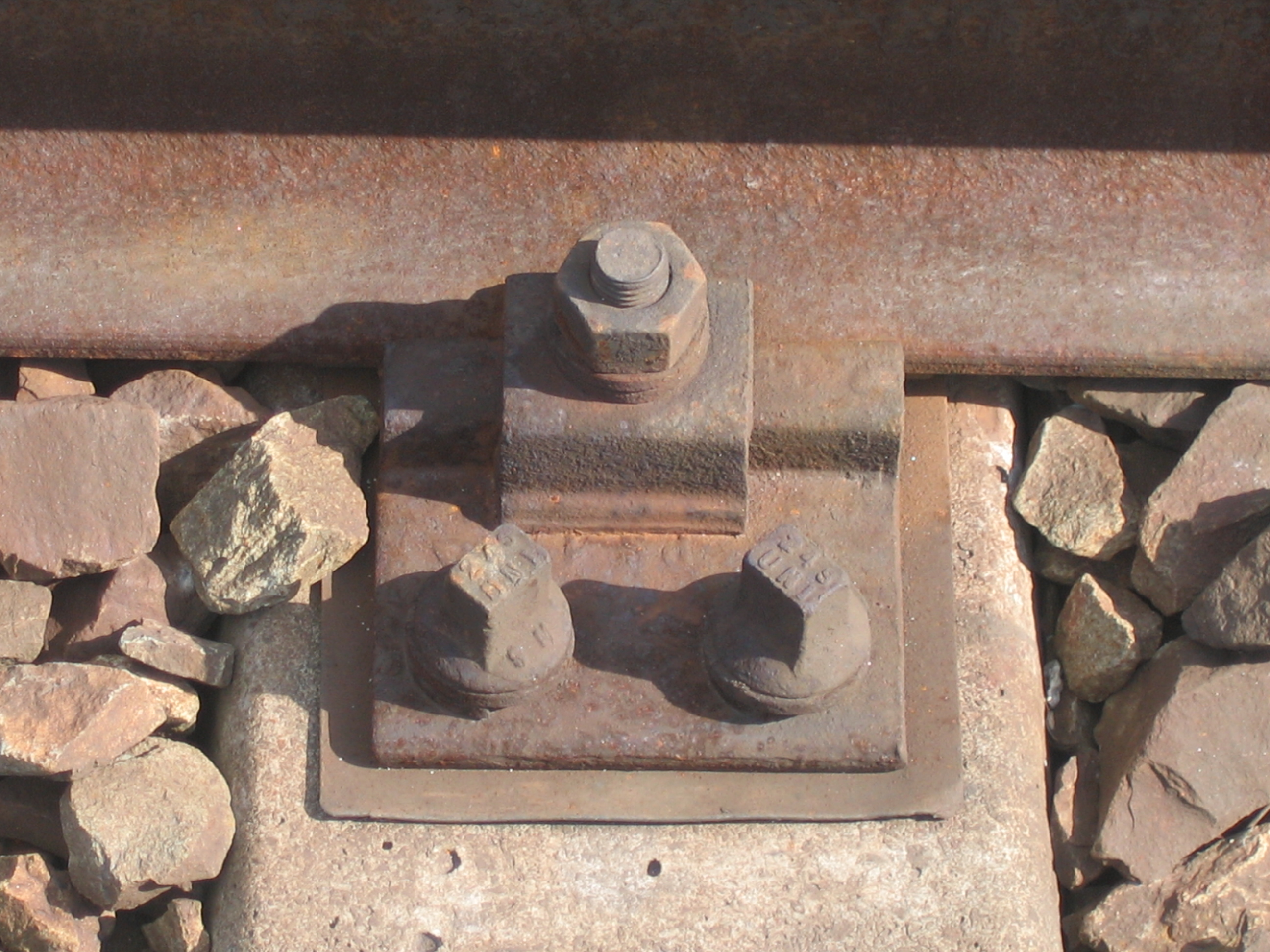 Rail bolts and nails, traditional tecnology. Italy